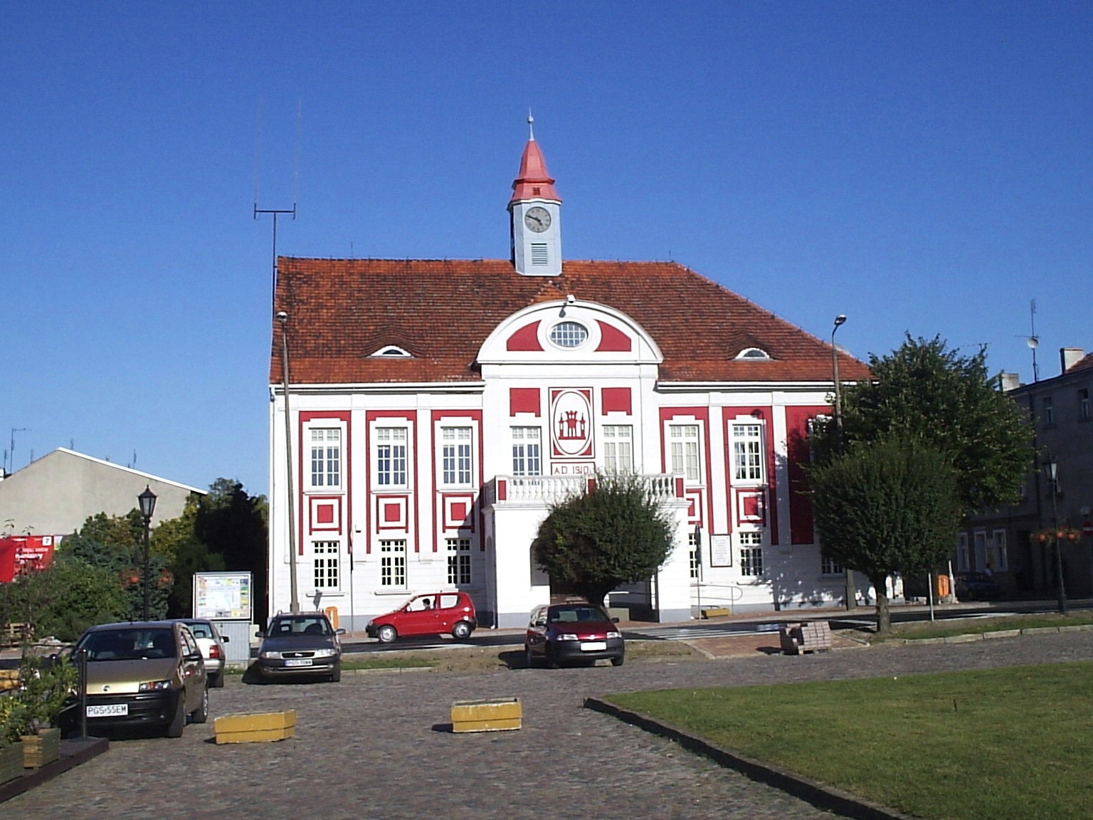 Town hall in Gostyń, Poland